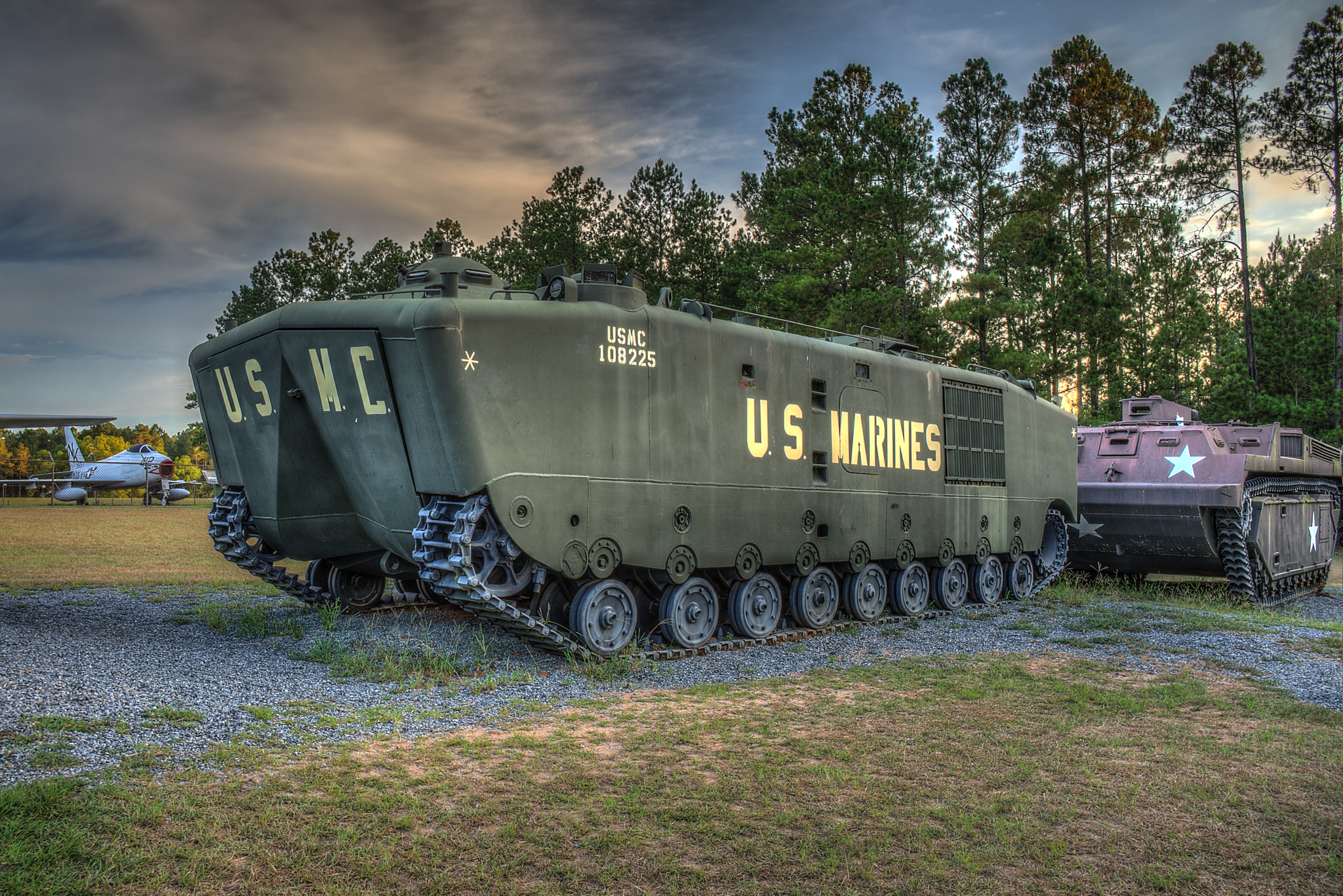 LVTP-5AI Landing Vehicle Tracked Personnel